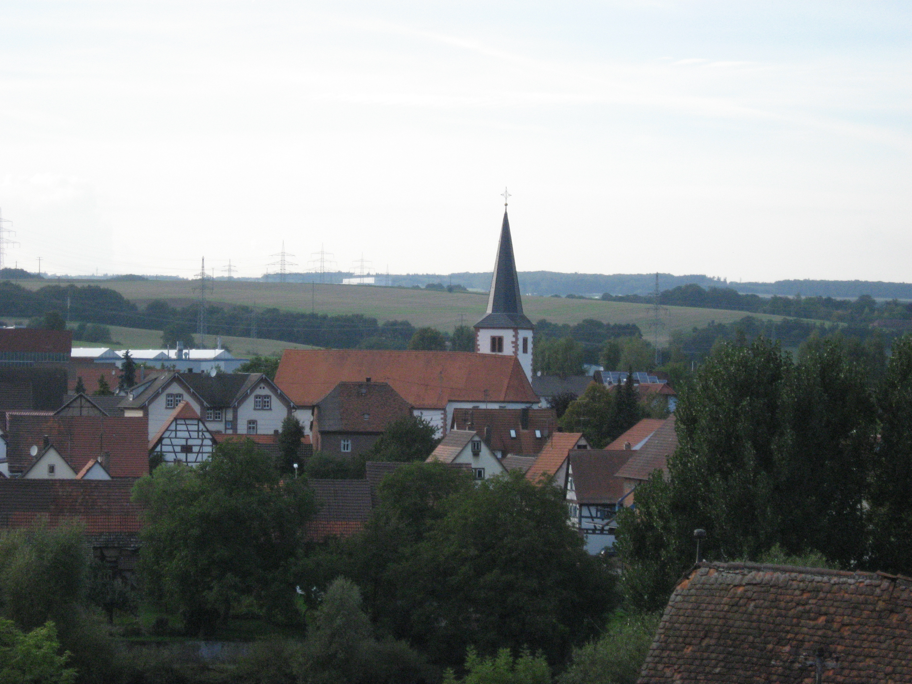 Sankt Georg in Trennfeld, geweiht am 1. September 1593